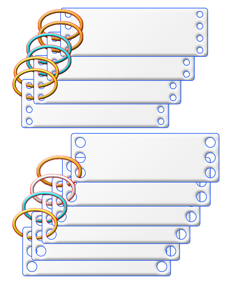 Bechter (a kind of plated mail) Diagramm